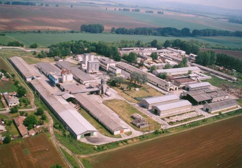 Dalmand, Bonafarm Forage factory; Hungary, aerial photography